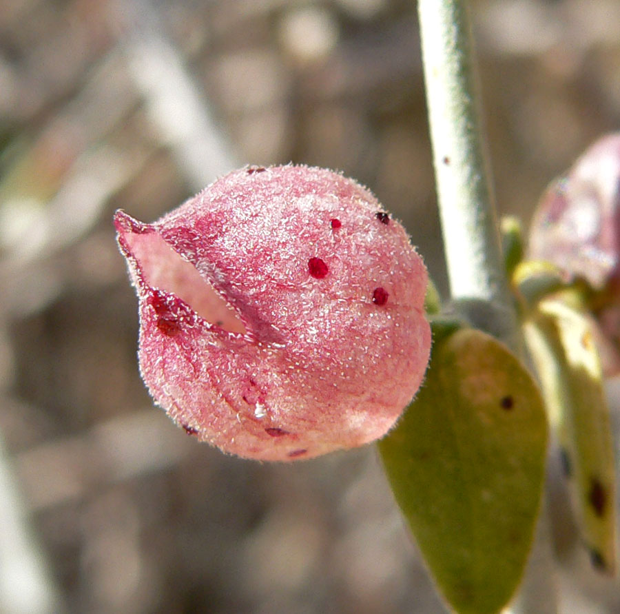 Photo of Salazaria mexicana (paperbag bush) in Calico Basin west of Las Vegas, Nevada